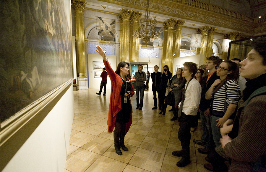 Специальное мероприятие для членов Студенческого клуба "Зимний вечер в Зимнем дворце"